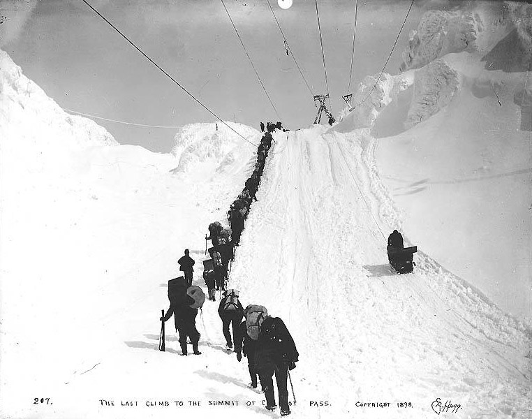 Last climb to summit of the Chilkoot Pass during the Klondike Gold Rush, 1898